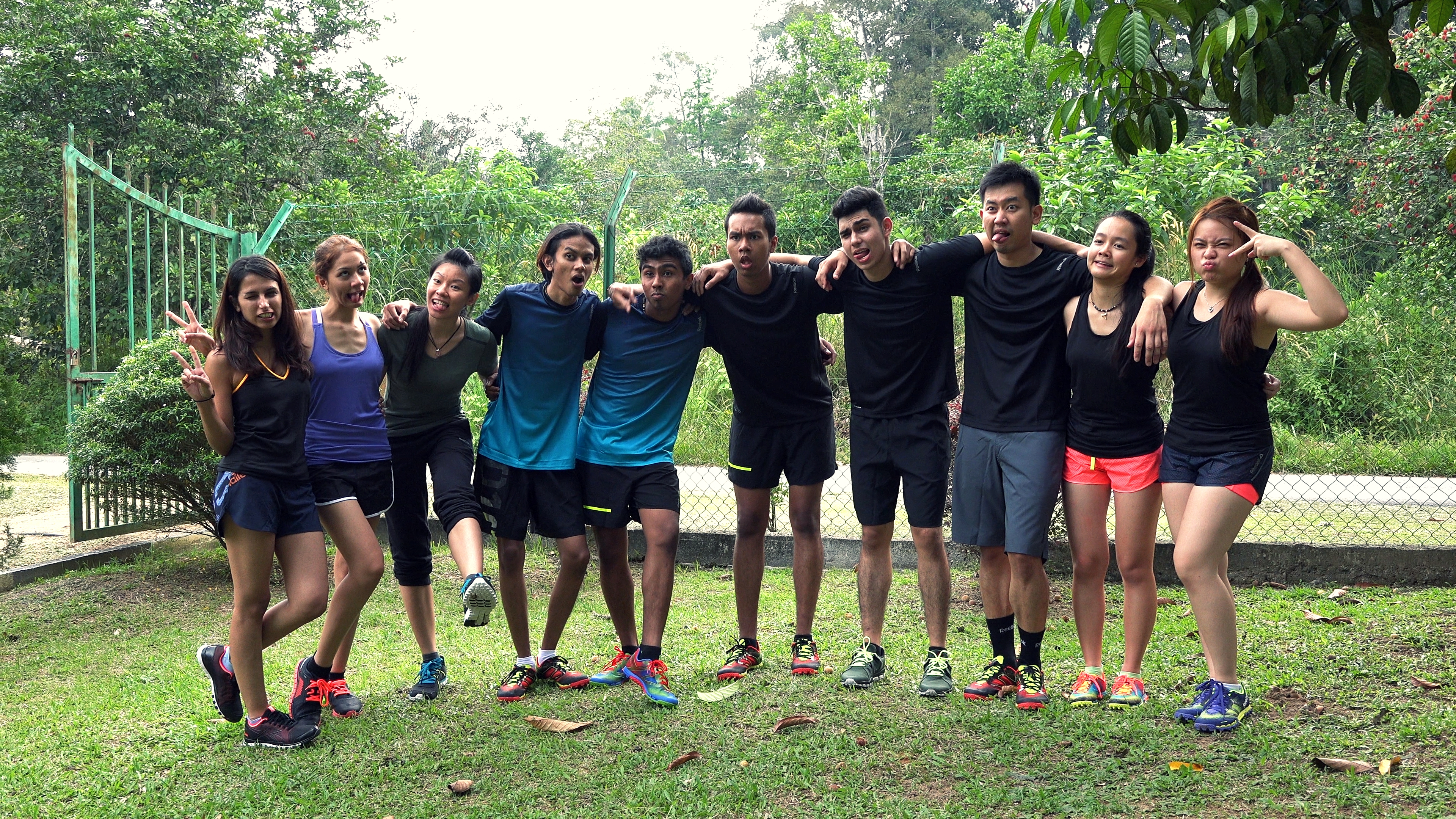 Kampung Quest, features 10 urbanites competing in physical, mental and social quests.